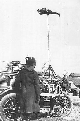 Imperial Guard Fire Brigade in the Pre-war Showa era